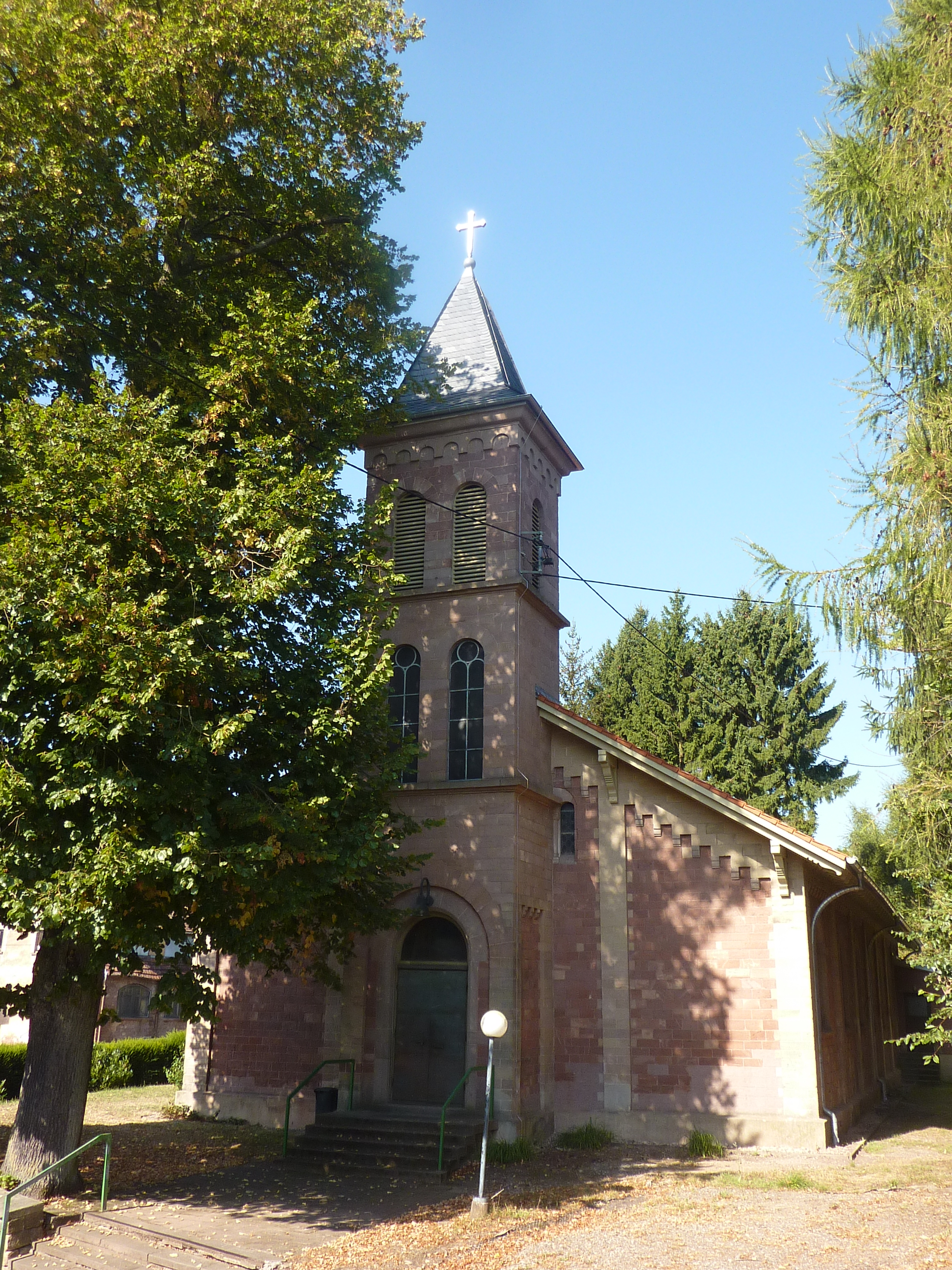 Protestant Church at Heiligenwald, Germany